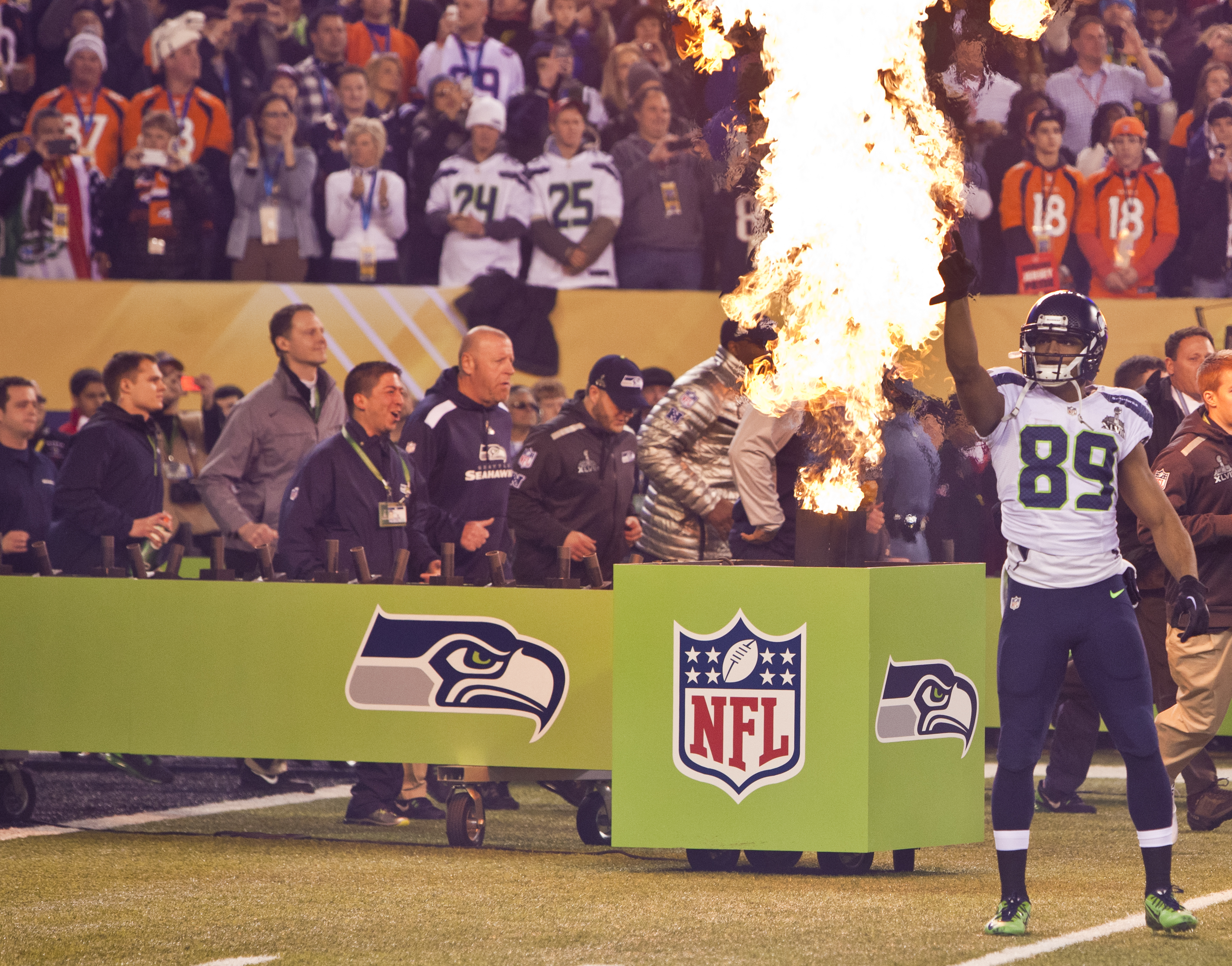 Doug Baldwin during the Super Bowl pregame in 2014